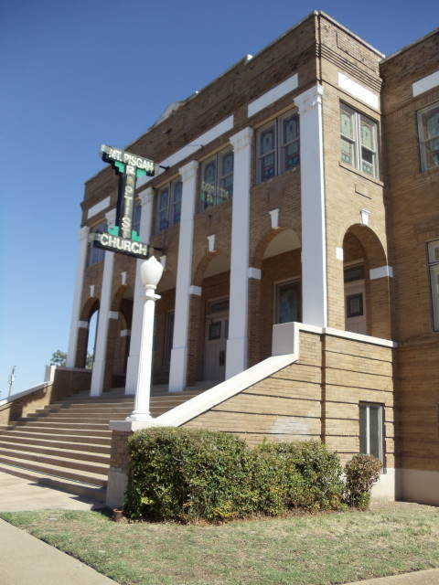 Tabernacle Baptist Church